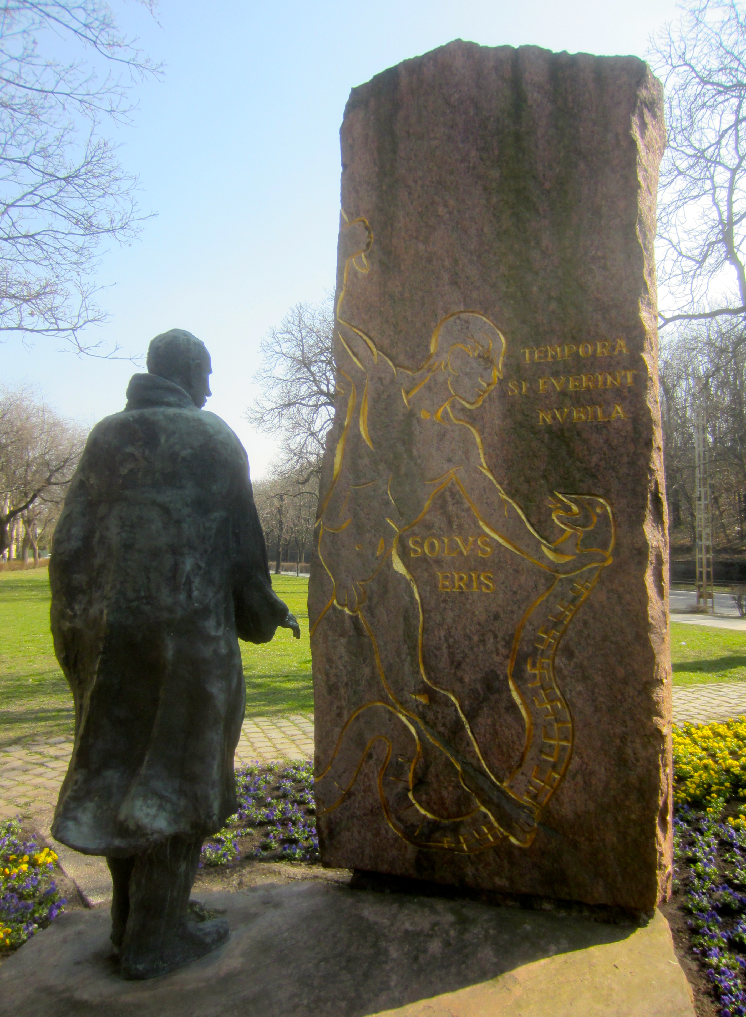 Inscription reads: TEMPORA SI FUERENT NUBILA - SOLUS ERIS: when I was happy I had many friends, when times were gray I found myself alone